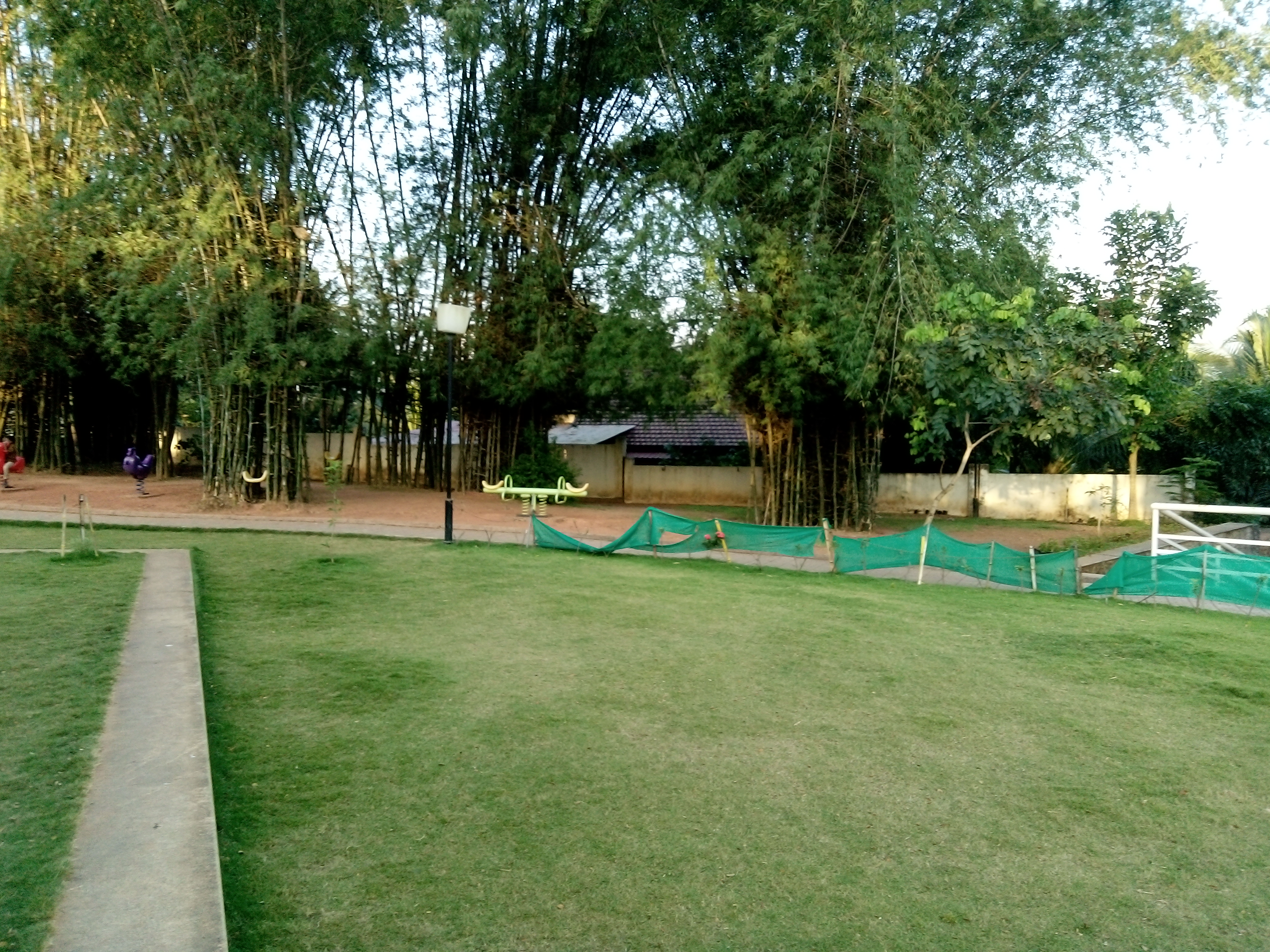 wandoor town square tourism dated on sep 4-2018